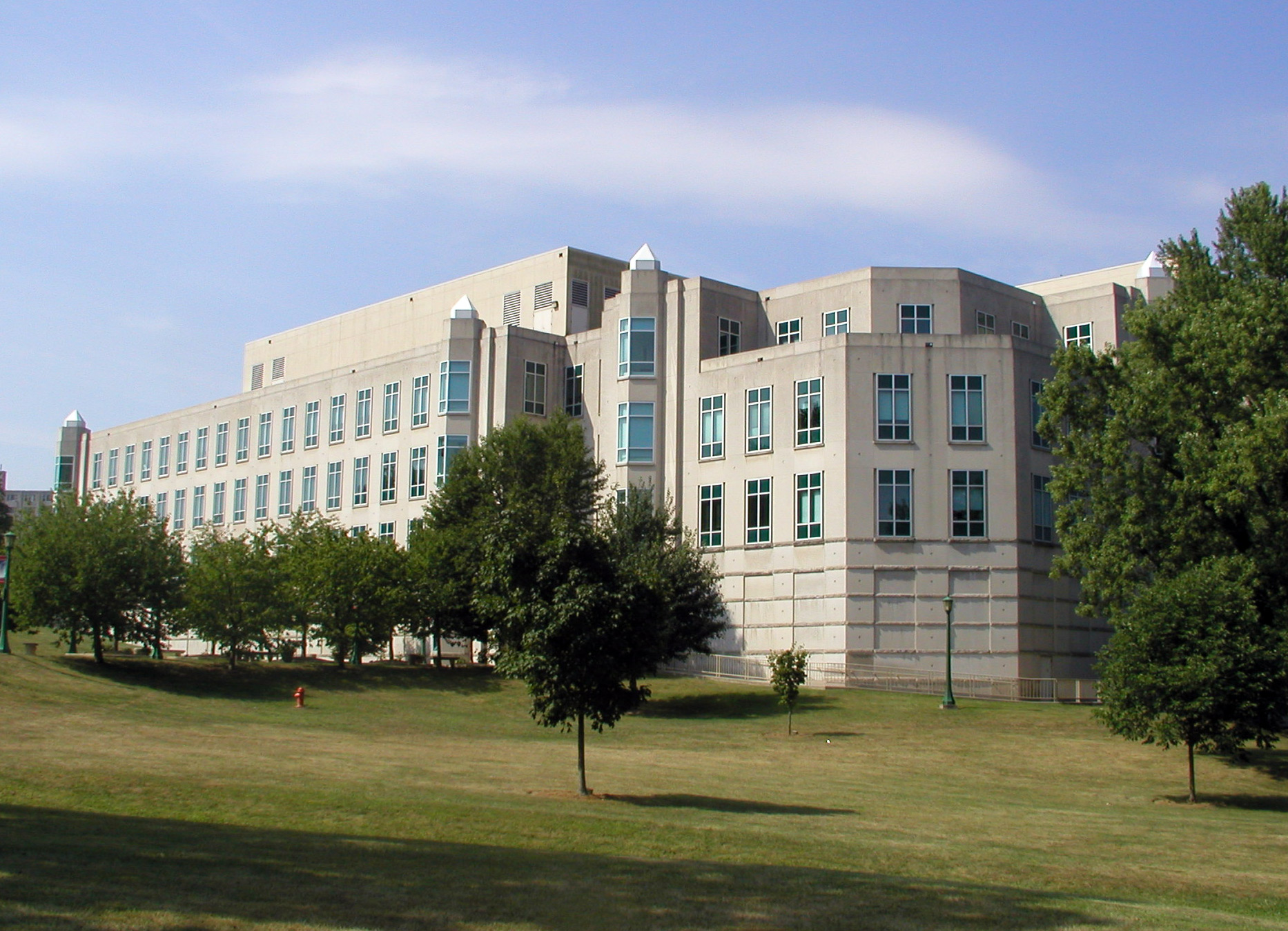 The School of Education in Wendell W. Wright Hall, on the campus of Indiana University Bloomington. Photo taken in August, 2006 by User:Durin-en